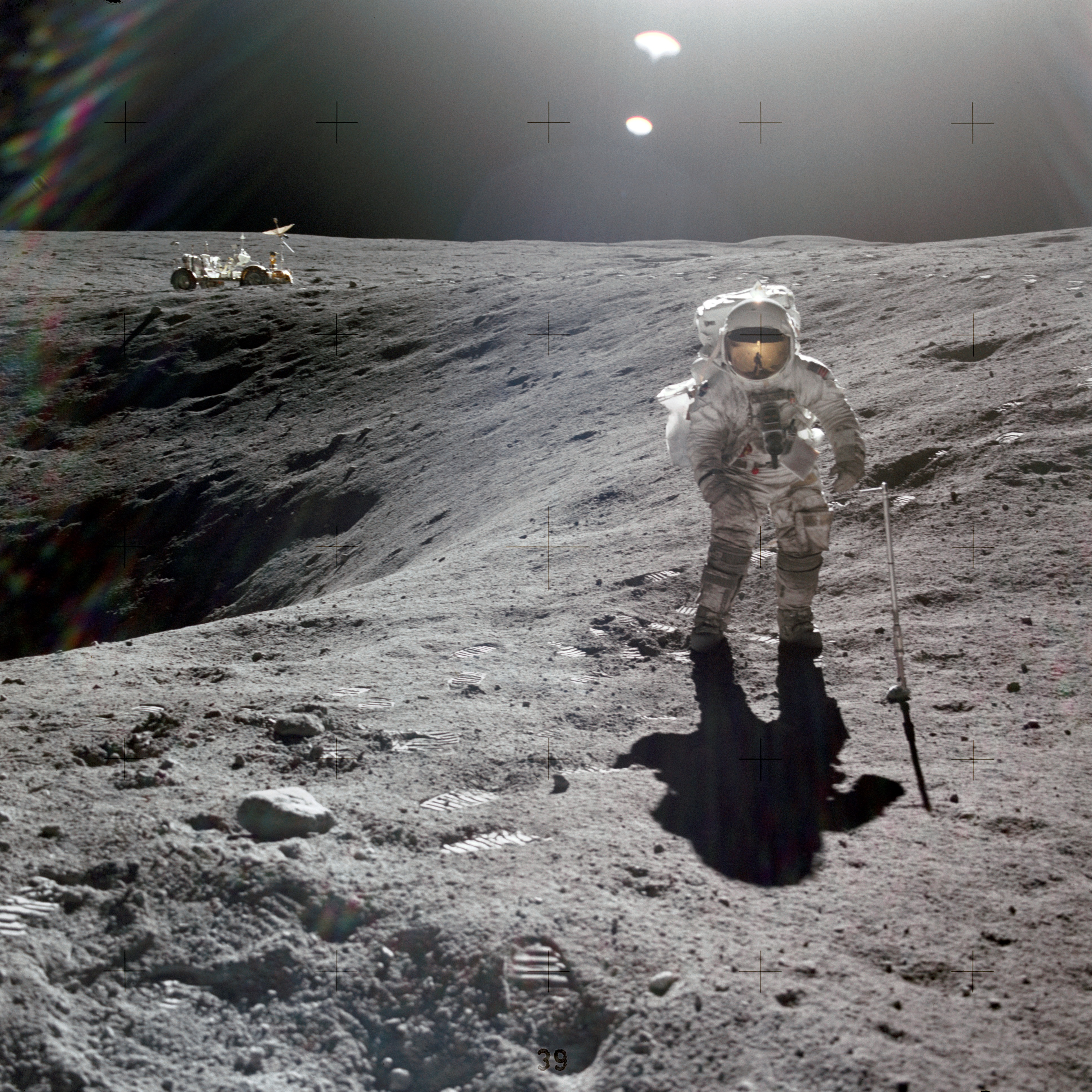 Astronaut Charles M. Duke Jr., lunar module pilot of the Apollo 16 lunar landing mission, is photographed collecting lunar samples at Station no. 1 during the first Apollo 16 extravehicular activity at the Descartes landing site. This picture, looking eastward, was taken by Astronaut John W. Young, commander. Duke is standing at the rim of Plum crater, which is 40 meters in diameter and 10 meters deep. The parked Lunar Roving Vehicle can be seen in the left background. Image #: as16-114-18423 Date: April 21, 1972